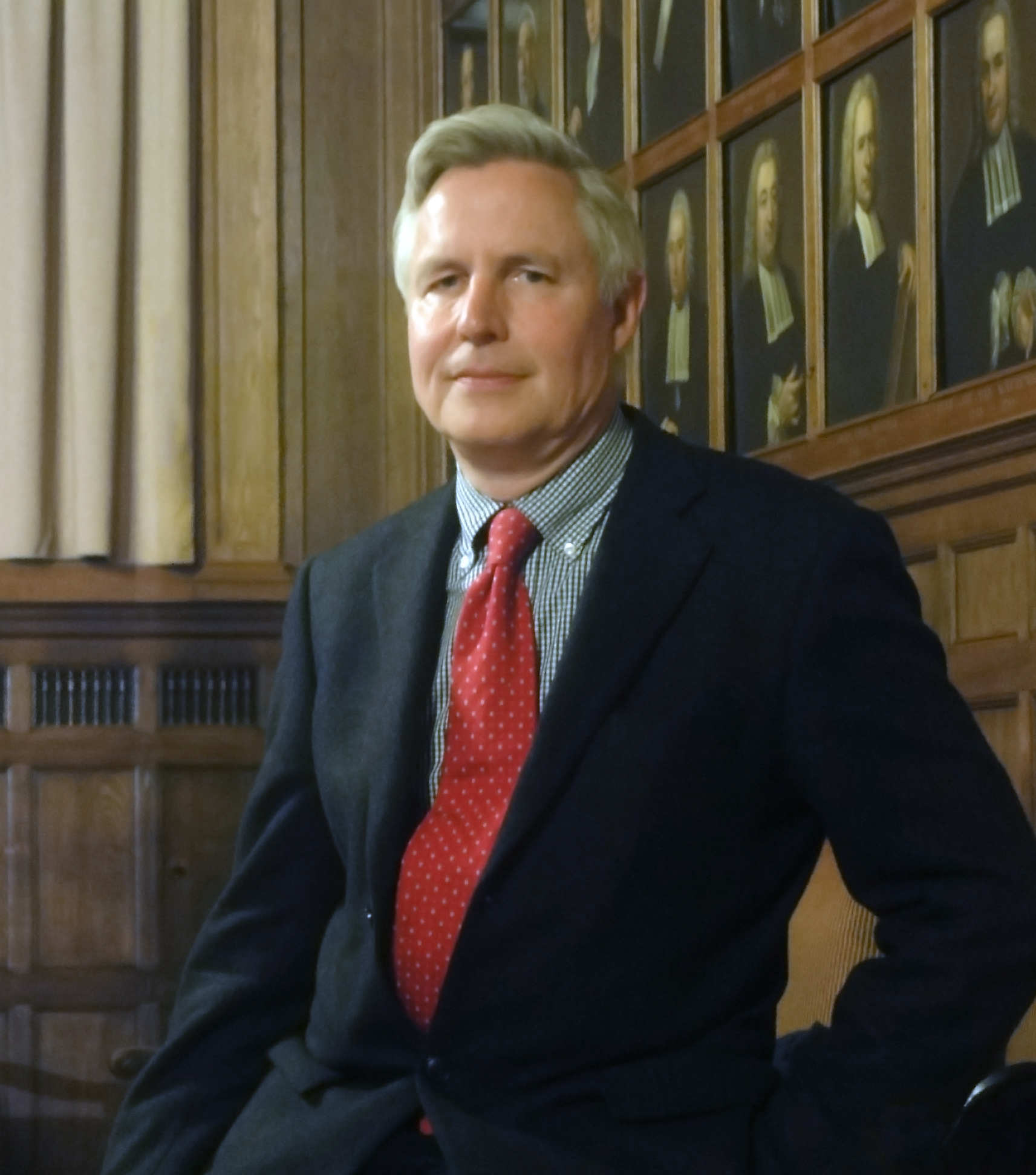 Herman Philipse giving a lecture on moral aspects of global warming at Studium Generale of Utrecht University